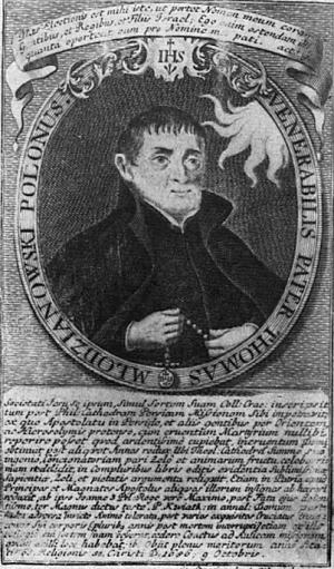 Inscription in Latin: Venerable father Tomasz Młodzianowski, a Pole (with the logo of the Jesuits)